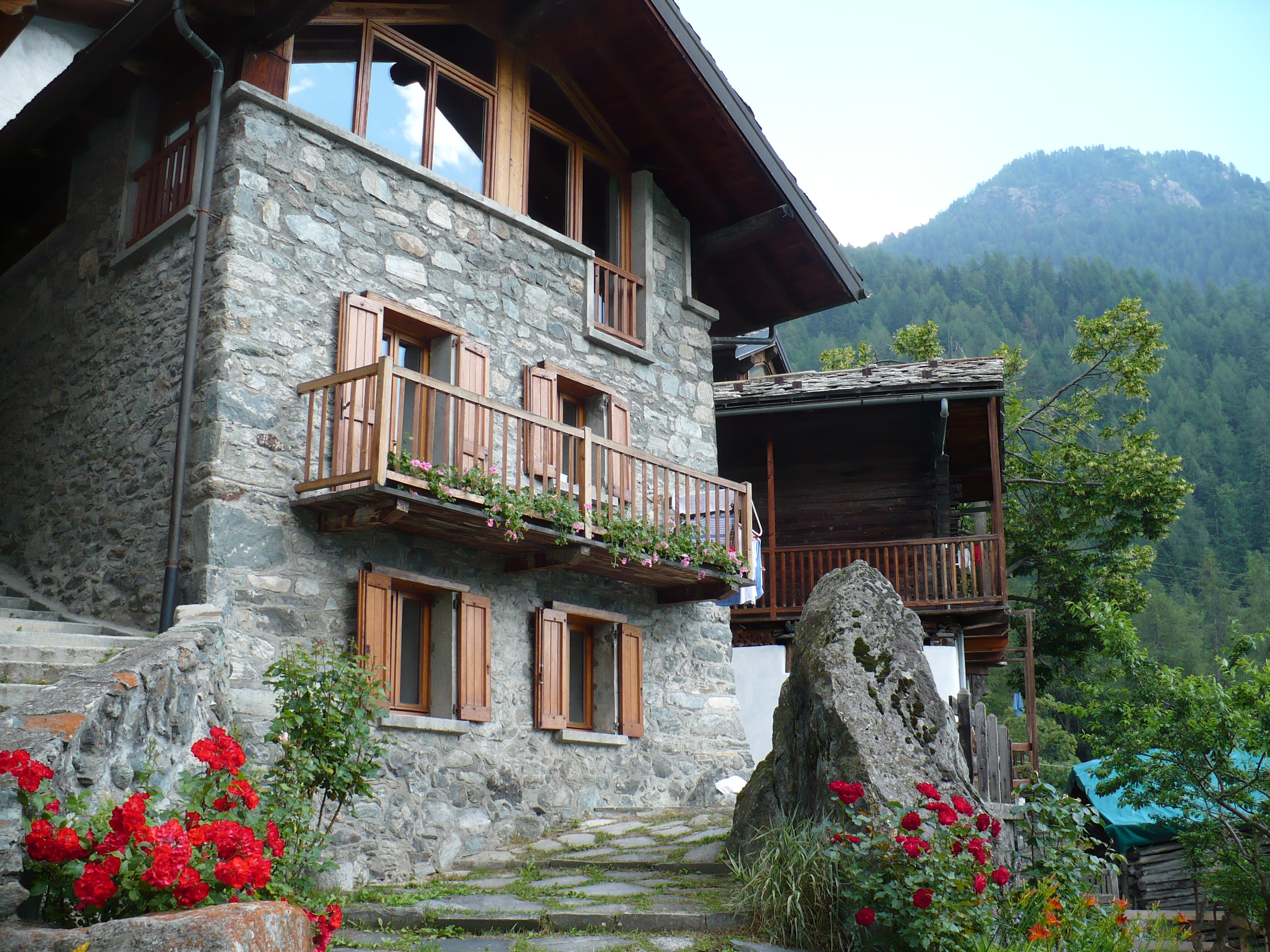 House - Cretaz - Valtournenche - Aosta Valley - Italy